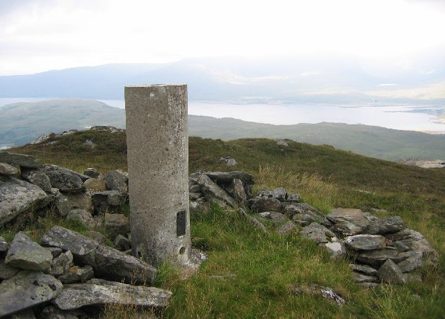 Bad a' Chreamha summit, Highland, Scotland. This mountain shows up strongly in views down Strathcarron. View of Loch Kishorn.